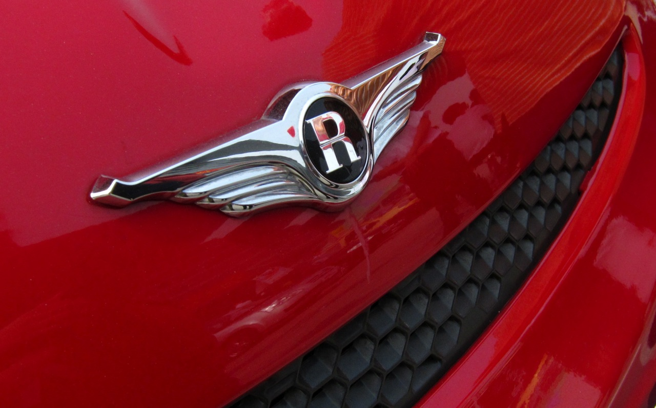 Chery Automobile Riich subbrand grill emblem logo badge